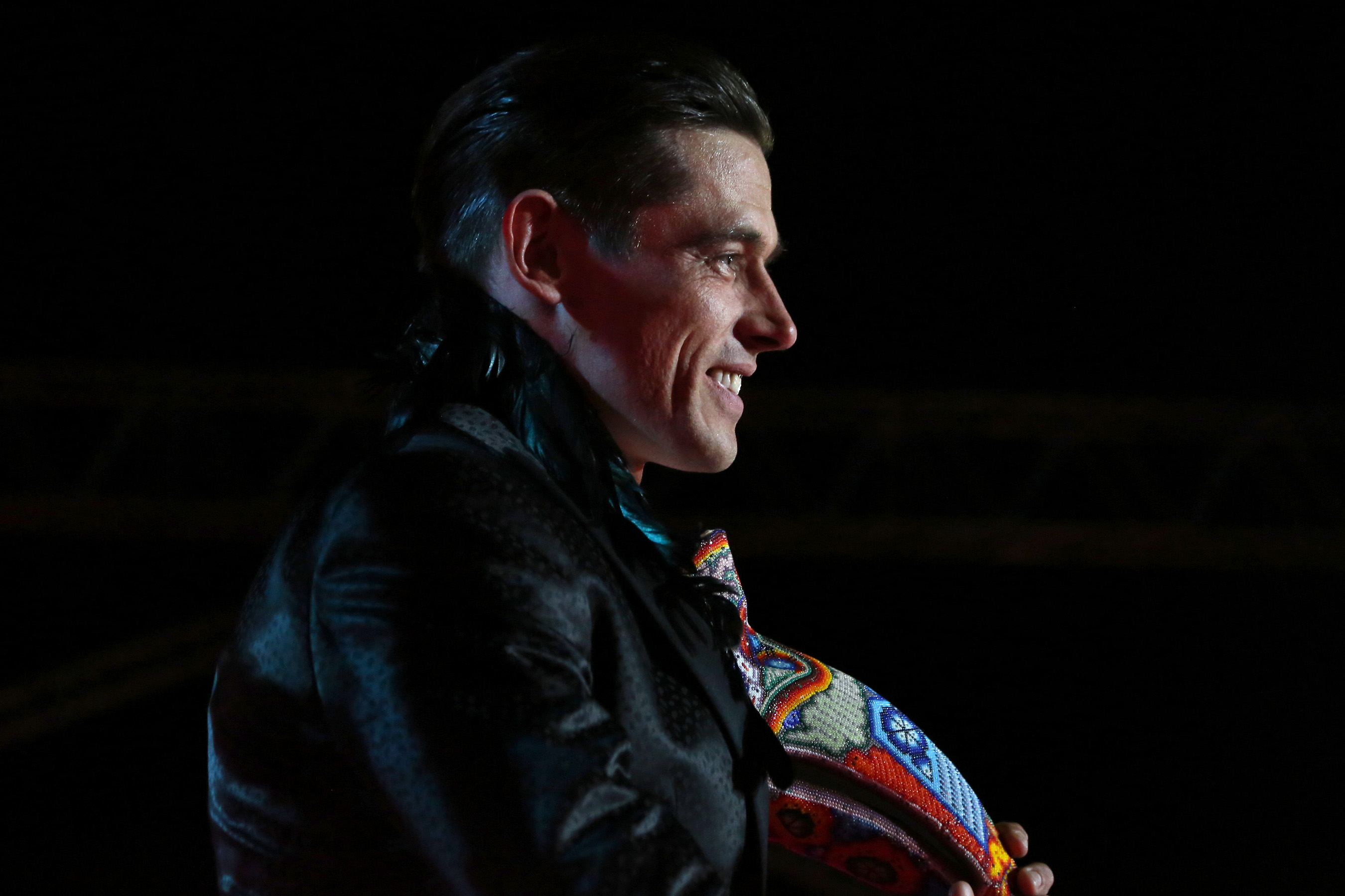 Werner Schreyer - Fashion show during the opening of Life Ball 2014 at the city hall of Vienna, Vienna, Austria.